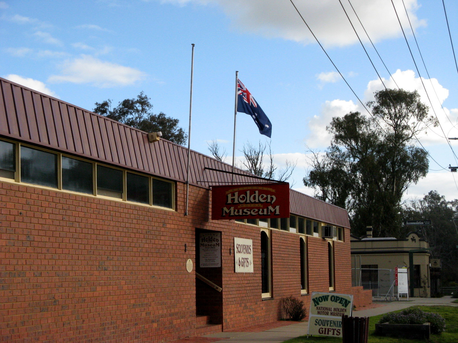 National Holden Museum in Echuca (Victoria)